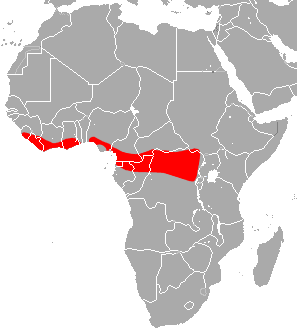 Benito Roundleaf Bat (Hipposideros beatus) range